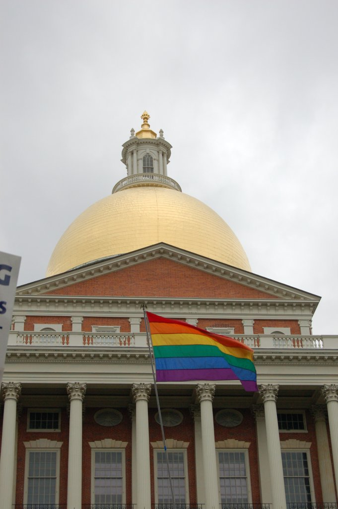 A rainbow flag flying in front of the Massachusetts State House on June 14, 2007, the day that the state legislature voted to end the constitutional convention and allow same-sex marriage to remain law.